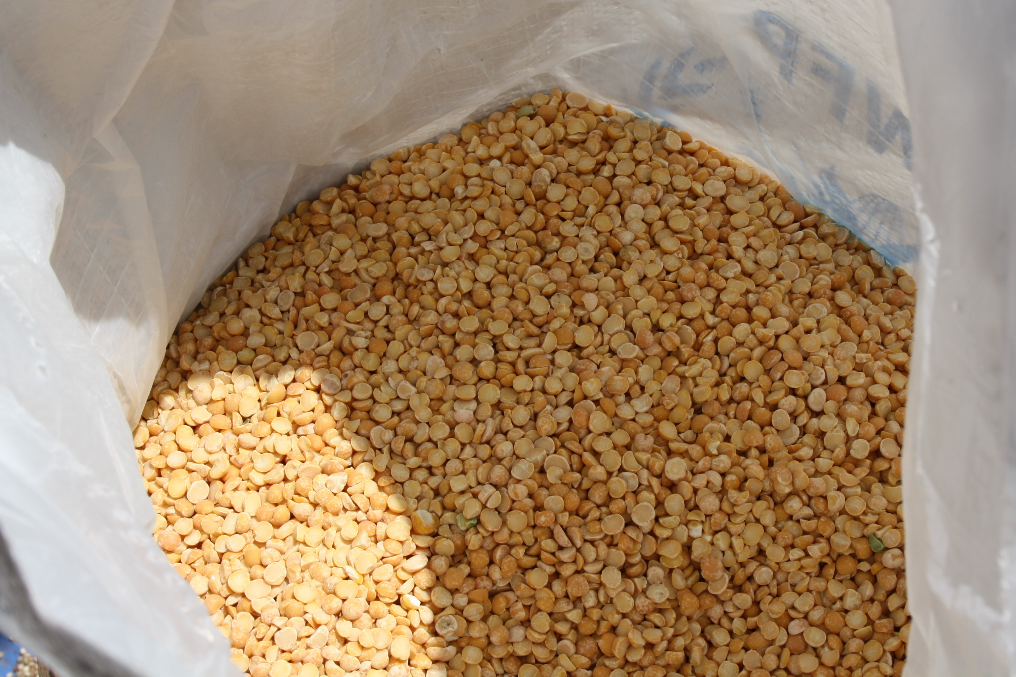 Over 380,000 men, women and children have so far been displaced by the conflict in Mali since March last year, of which over 210,000 have been internally displaced and over 160,000 have sought refuge into neighbouring countries. UK aid, through the World Food Programme (WFP) is enabling thousands of these people to survive the very real affects brought on by Mali’s conflict. Out of approximately 61,000 internally displaced people (IDPs) that are currently registered in Bamako, WFP is helping support 12,000 of the most vulnerable. IDPs receive a monthly food package, or ration, to help to feed their entire household. This consists of rice or sorghum, beans and pulses, oil, salt and Corn Soya Blend (CSB), a specially fortified blend meal fortified with essential vitamins and minerals.